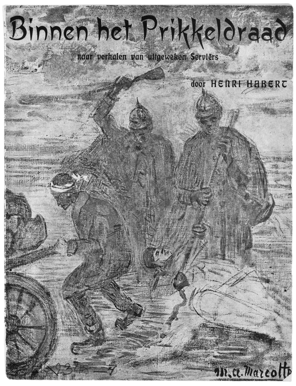 Book cover of Henri Habert, 'Binnen het Prikkeldraad: naar Verhalen van Uitgeweken Serviërs', Amsterdam (1919), cover art by Marie Antoinette Marcotte (1869 - 1929)